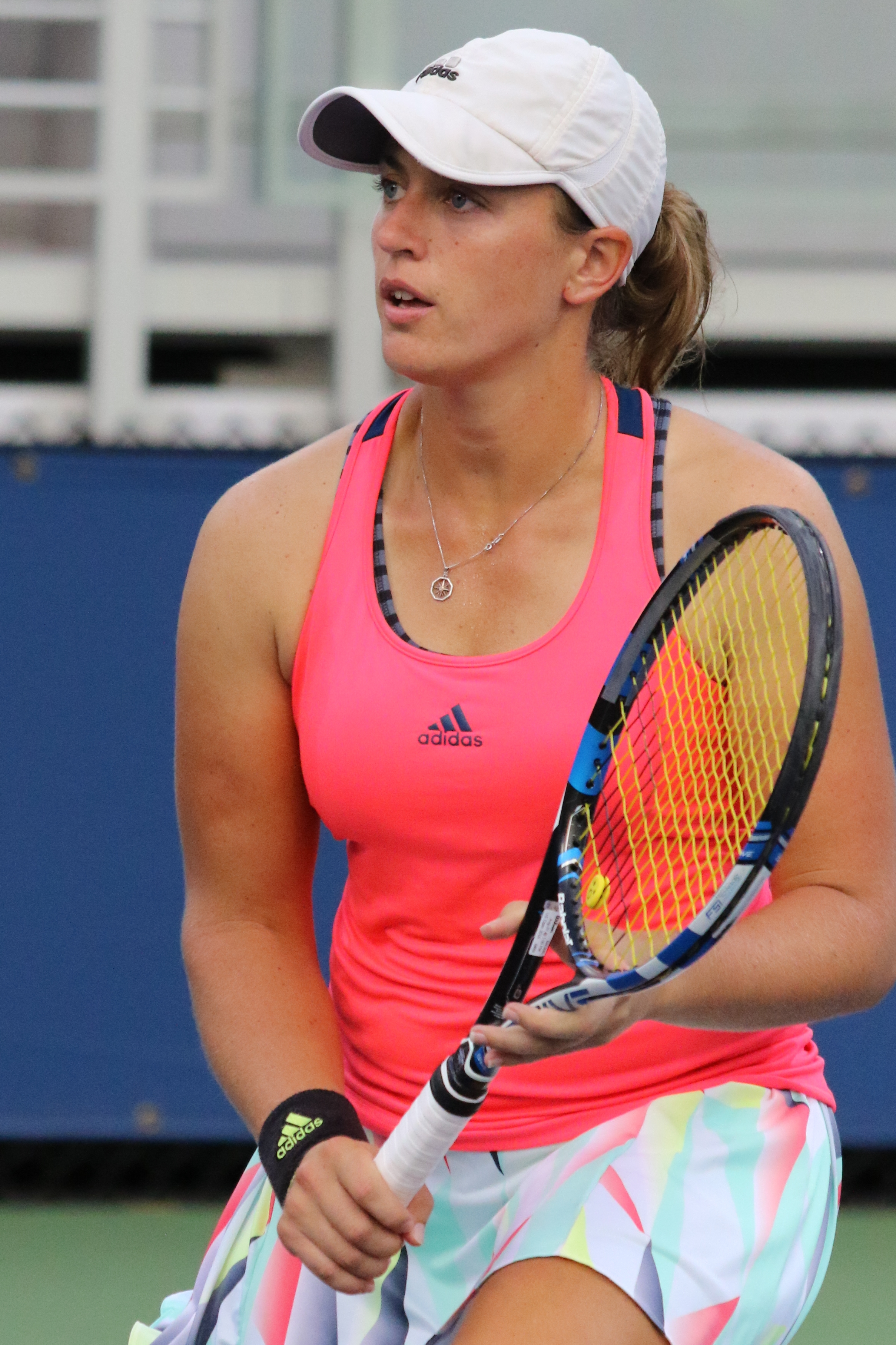 Whoriskey US16 (10)